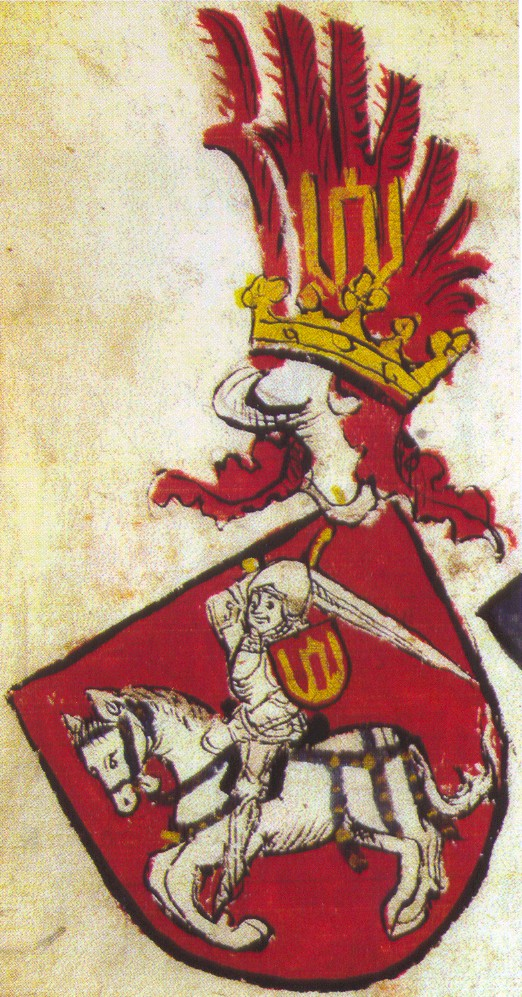 Lithuanian (GDL) Coat of Arms Vytis from «Codex Bergshammar».